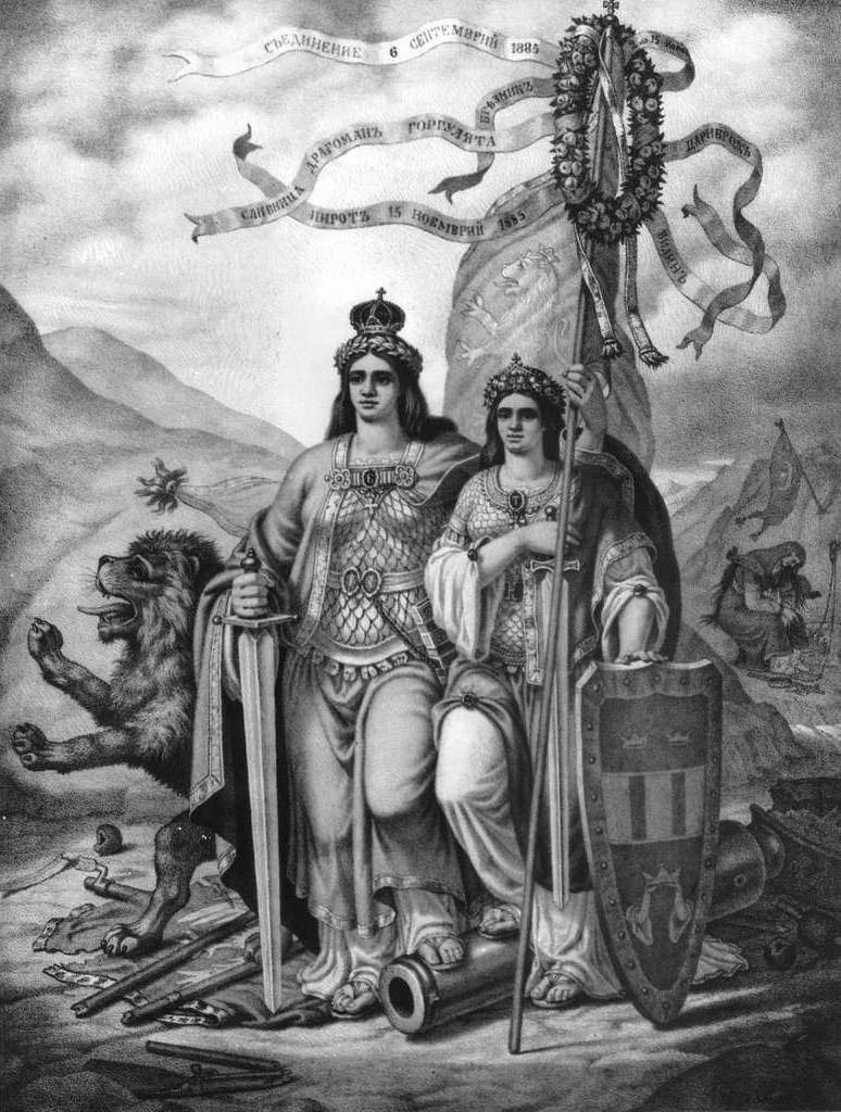 en: United Bulgaria - a lithography by Nikolai Pavlovich (1835-1894), Principality of Bulgaria (in the middle), Eastern Rumelia (right); bg: “Съединена България” - литография от Николай Павлович, de: “Vereintes Bulgarien”, Litographie von Nikolaj Pavlovich